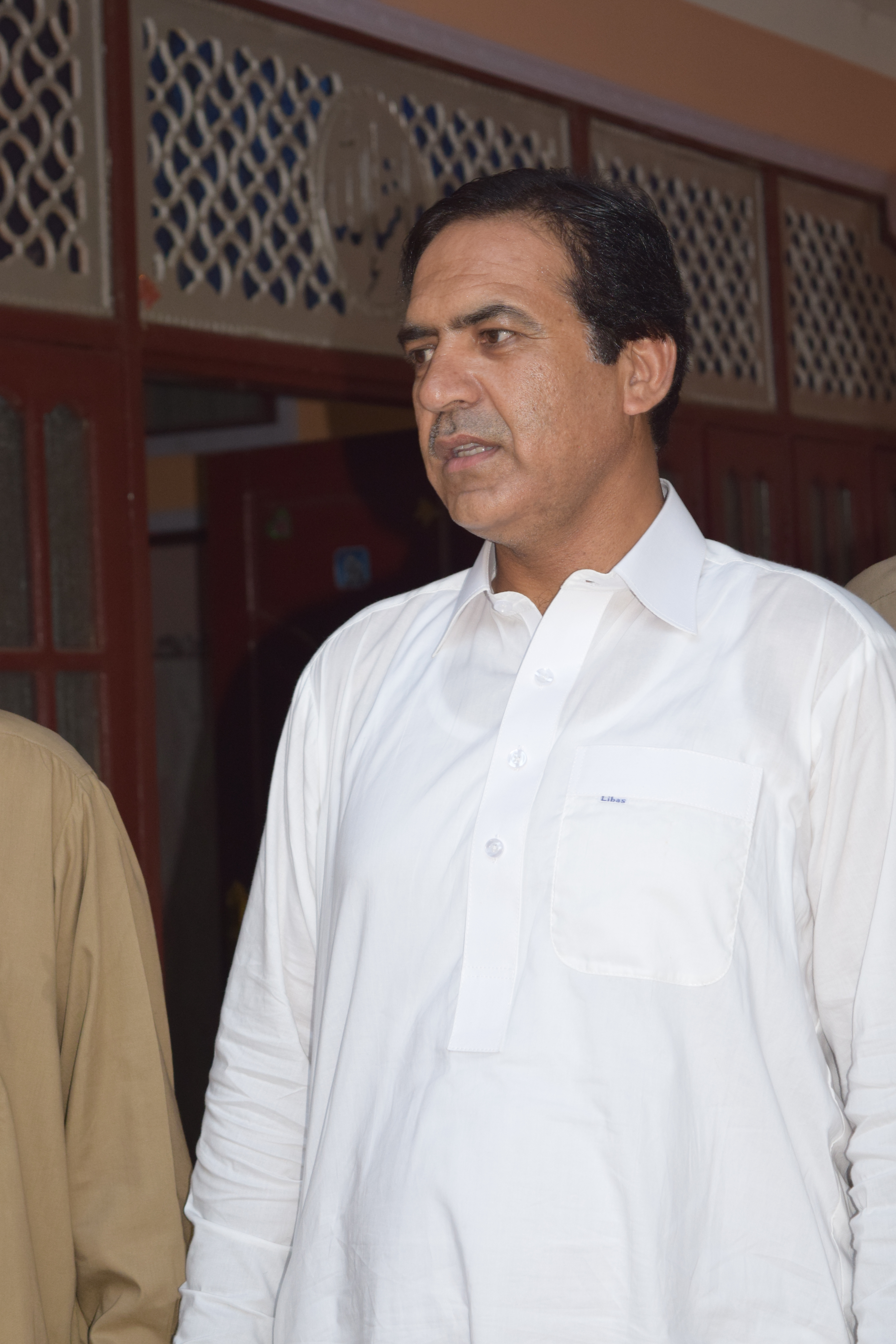 Riaz Khan, member of tehsil council Beer Teshil Haripur